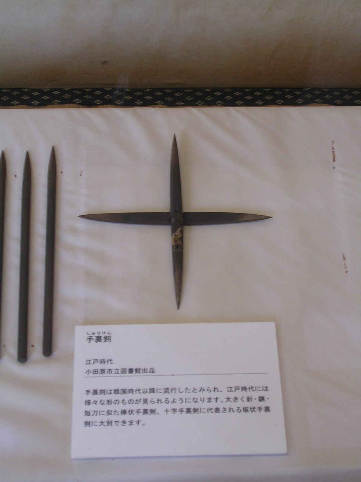 A historic shuriken of the edo period. Odawara Castle Museum, Odawara, Japan photographer=uploader